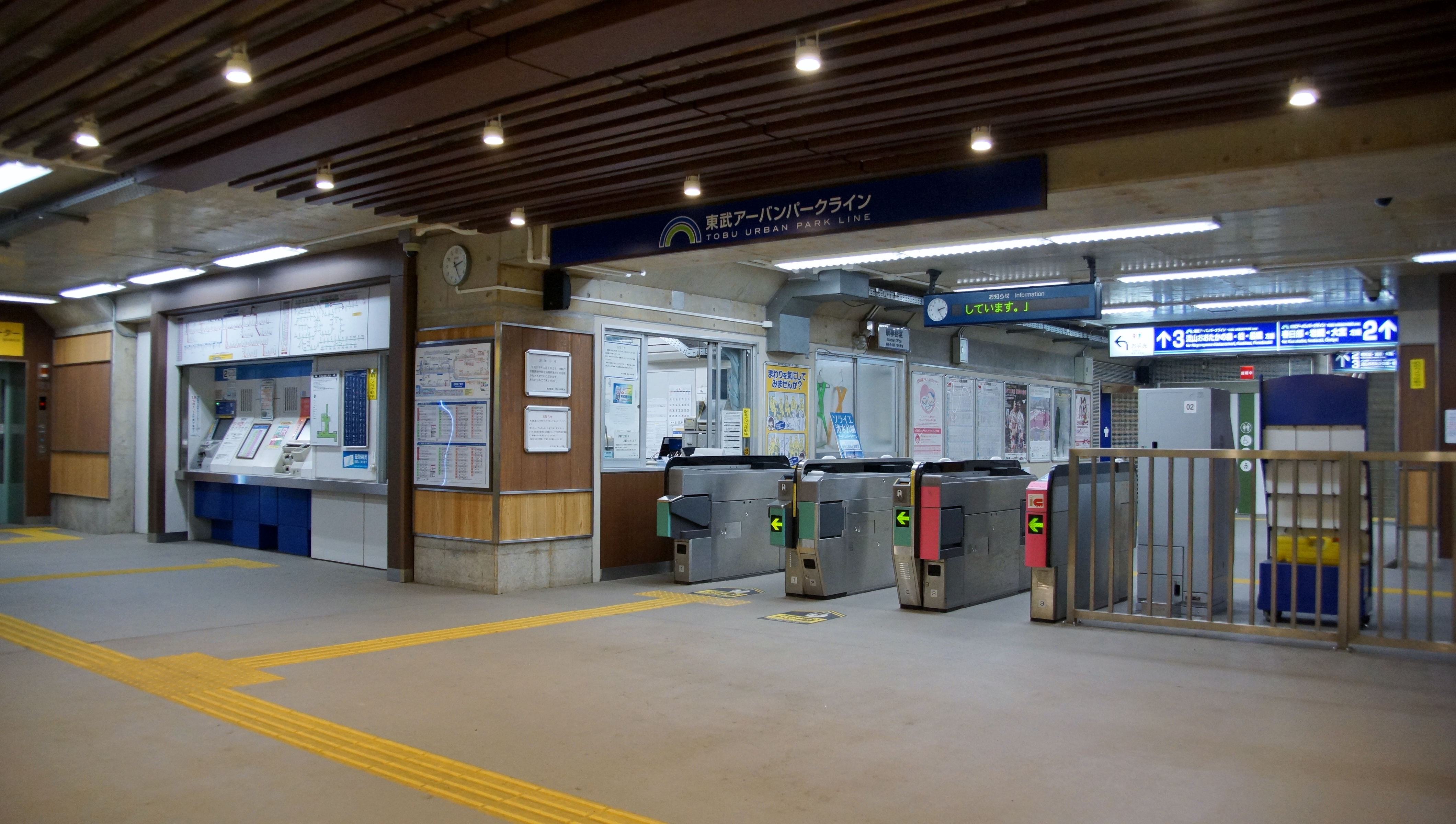 The ticket vending machines and ticket barriers at Shimizu-koen Station on the Tobu Urban Park Line